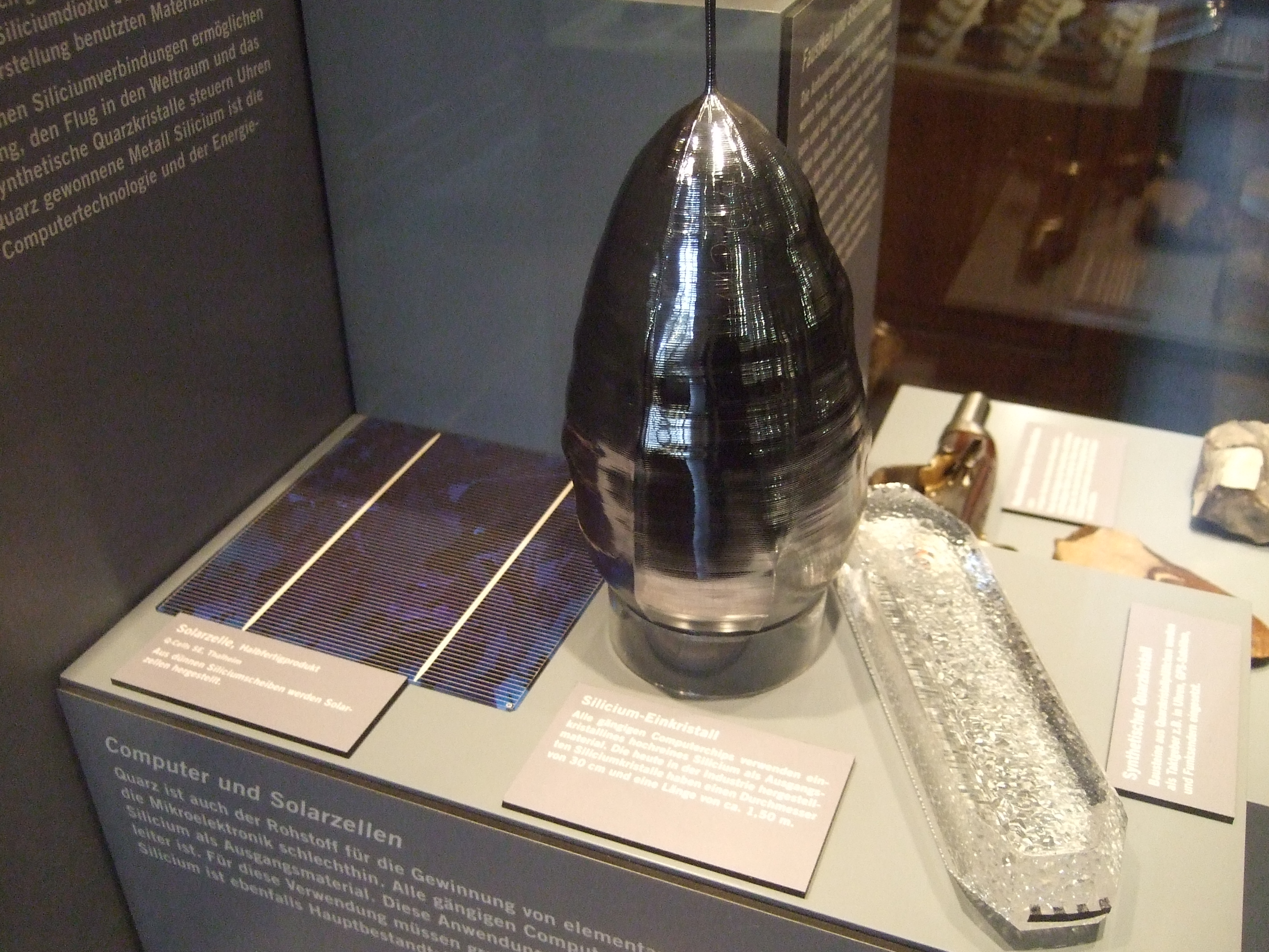 Single-crystal silicon boule in Museum für Naturkunde Berlin, Germany.